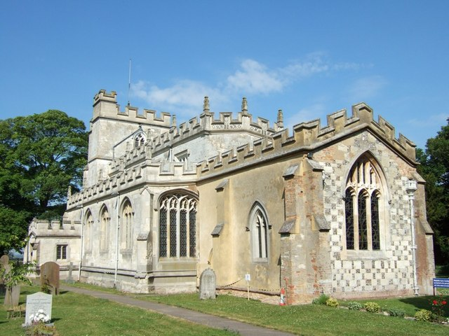 St. Giles, Totternhoe. Quite a grand looking church this with its battlements and side aisles. See also 193748. More about Totternhoe and its church can be found here